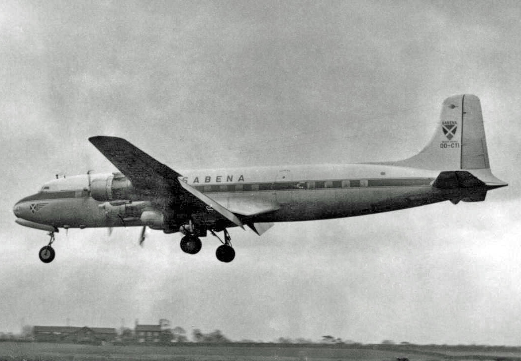 Douglas DC-6B OO-CTI of SABENA Belgian Airlines landing at Manchester Airport after a non-stop flight from New York (Idlewild) (later JFK) in 1955